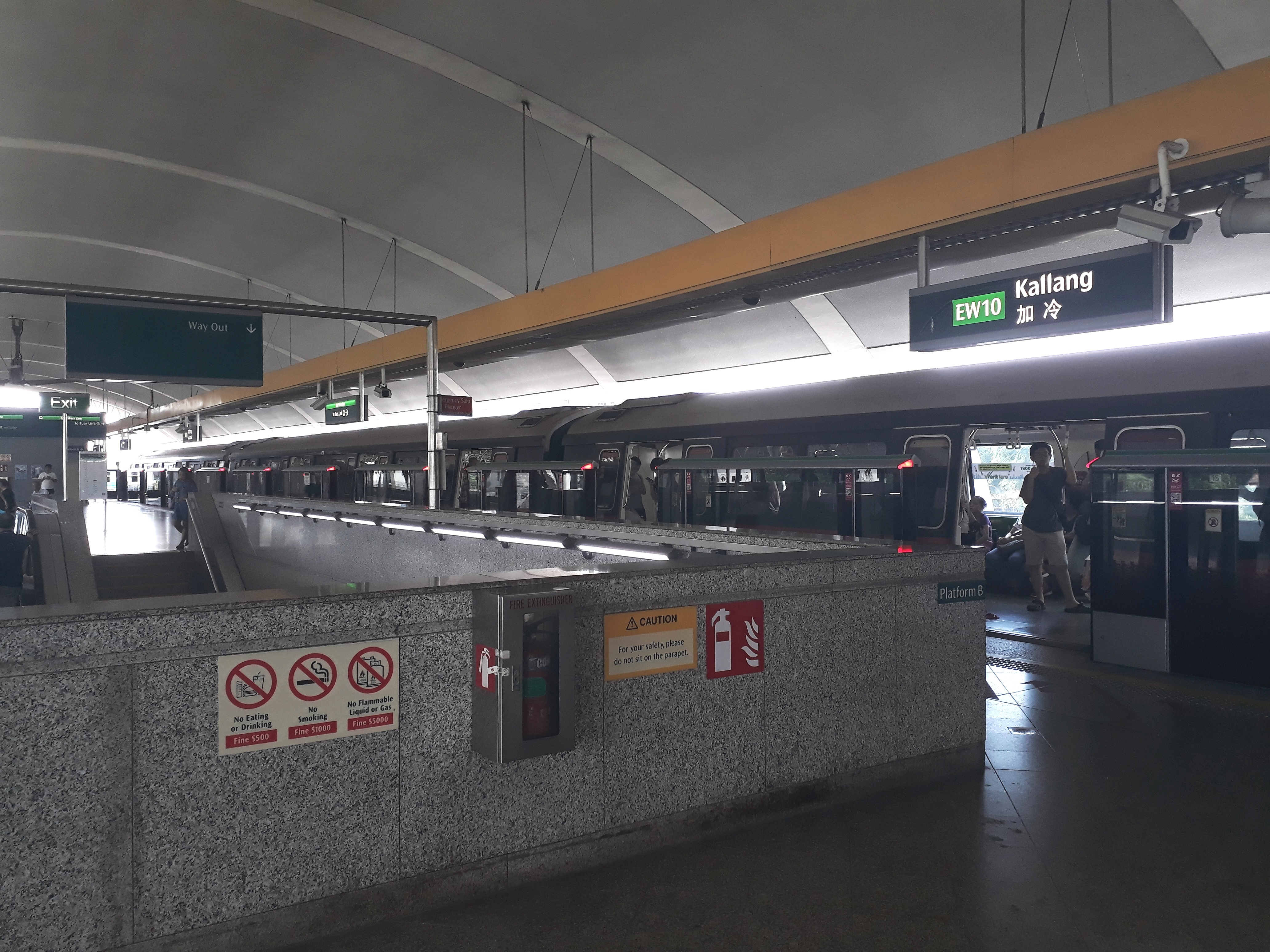 Platform A Kallang